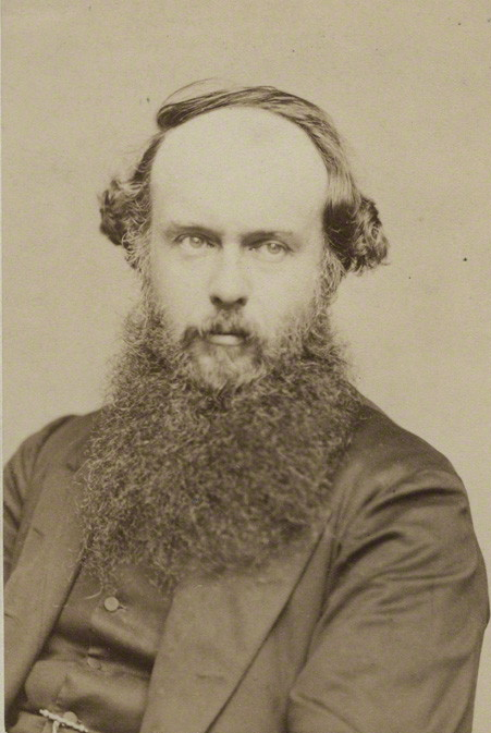 Photograph of Myles Birket Foster. Albumen carte-de-visite. 3 5/8 in. x 2 3/8 in. (92 mm x 59 mm) image size.